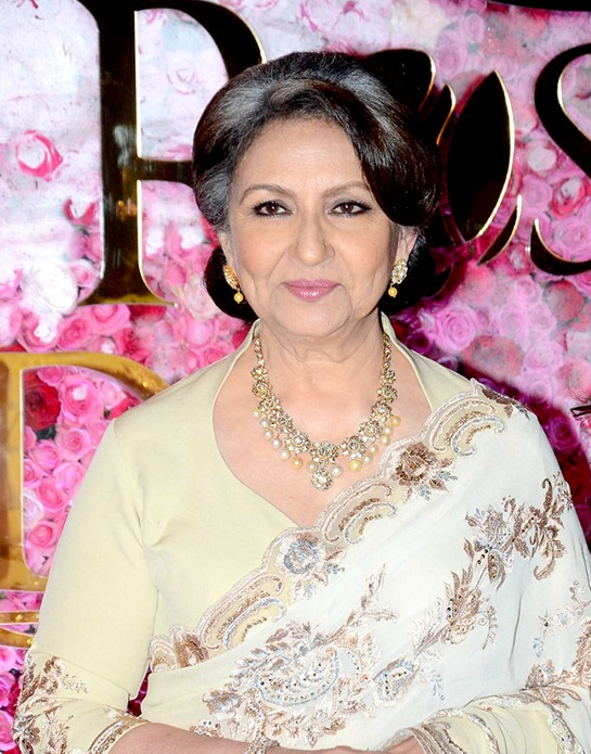 at Lux Golden Rose Awards 2016